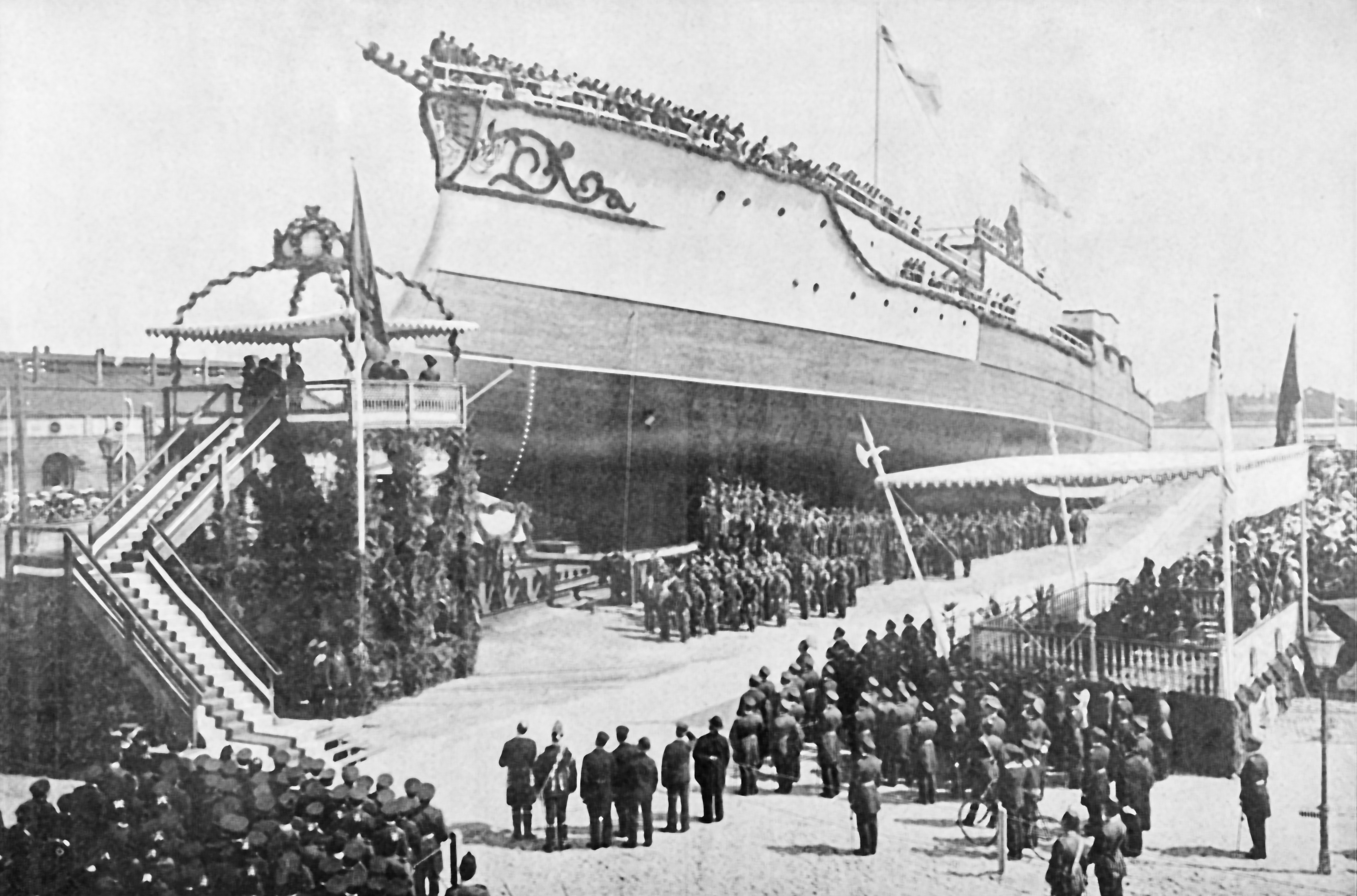 Launch of the liner ship Schwaben on 19.08.1901 in Wilhelmshaven. Queen Charlotte of Württemberg performs the baptismal act.